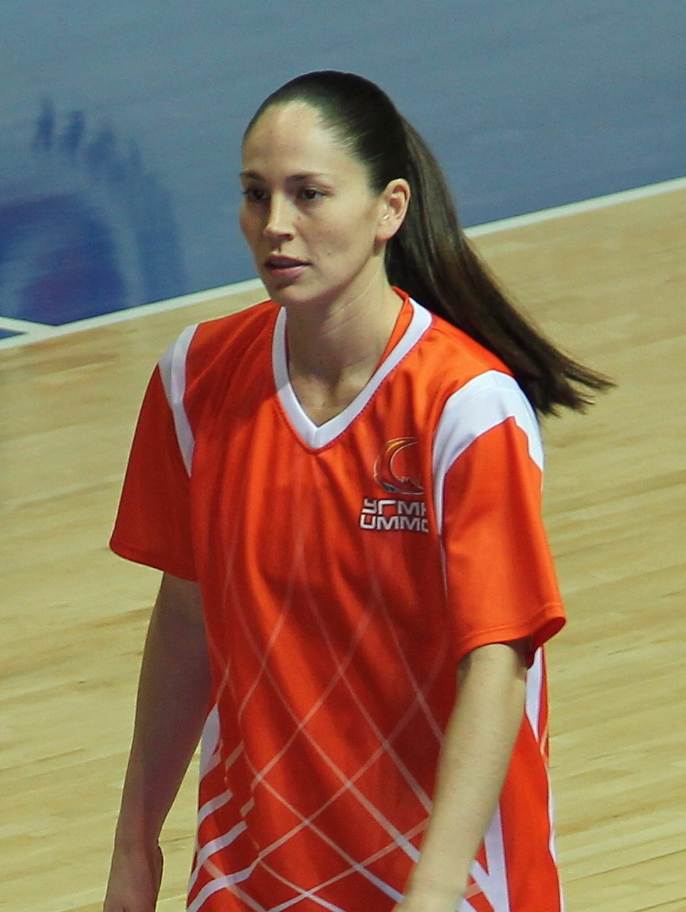 Russia, Vologda, Sue Bird in game «Vologda-Chevakata» vs «UMMC» (Yekaterinburg)